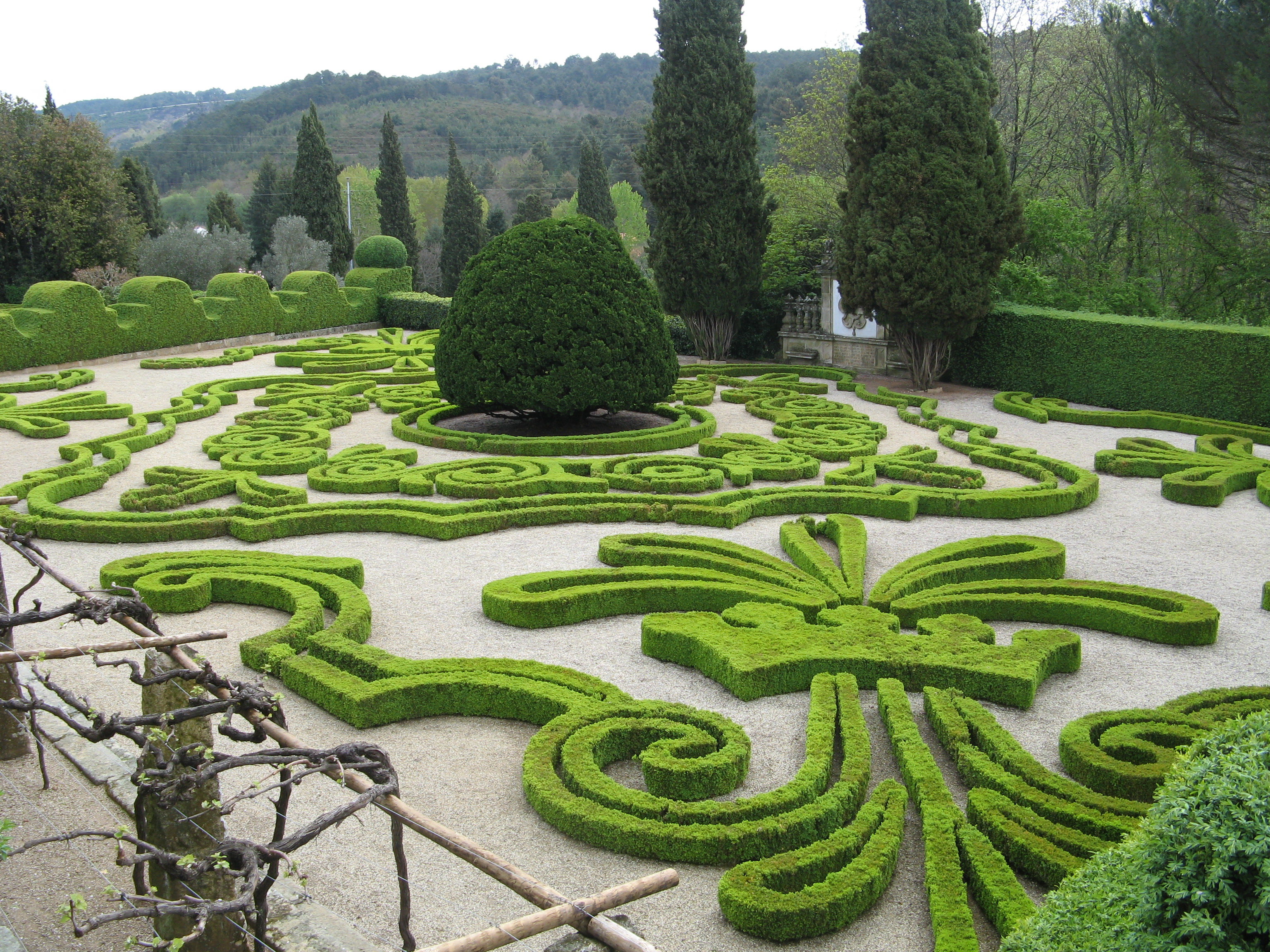 This file was uploaded for Wiki Loves Monuments in Portugal with the unique identifier 71128.